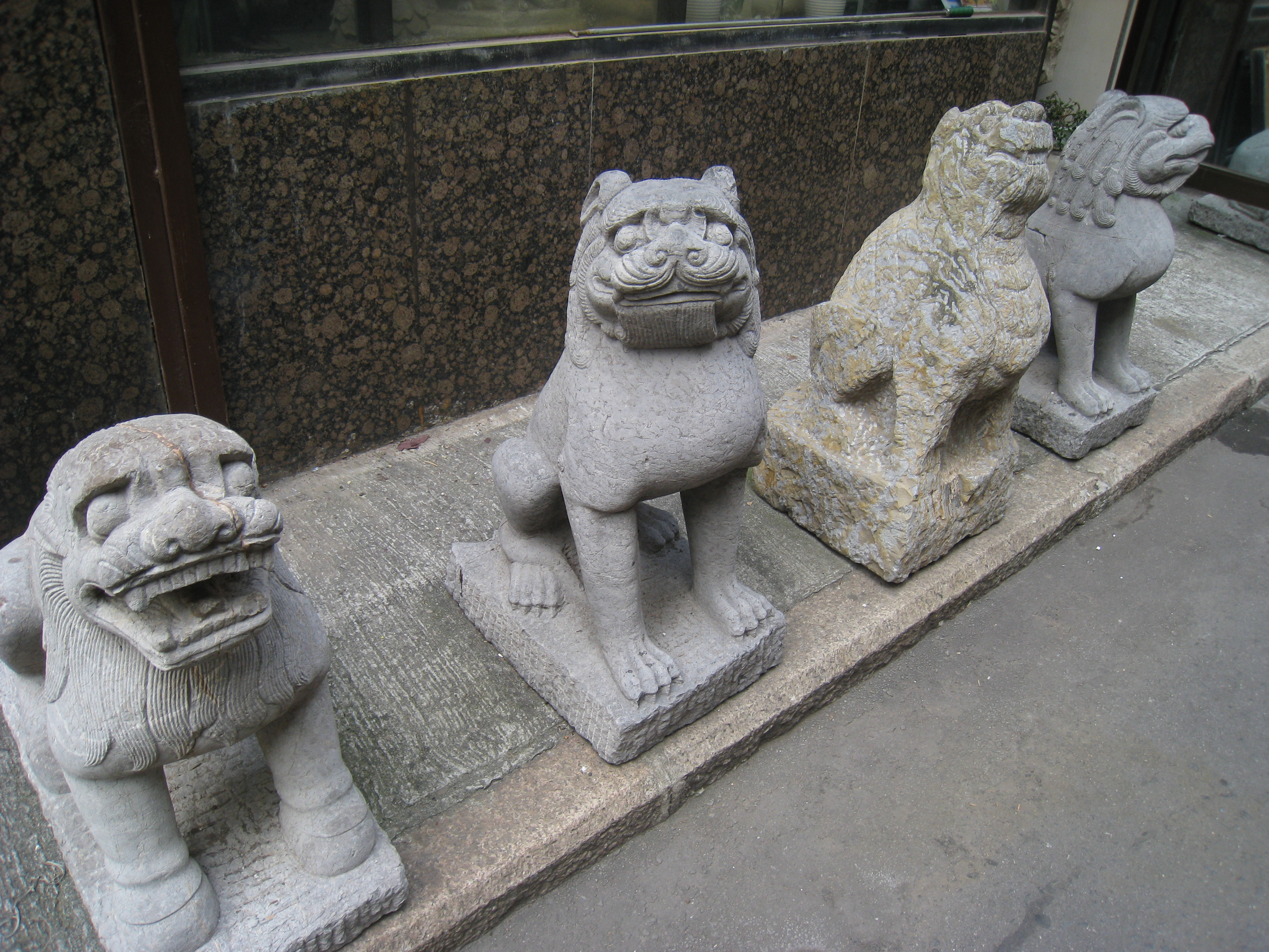 Rock Lions